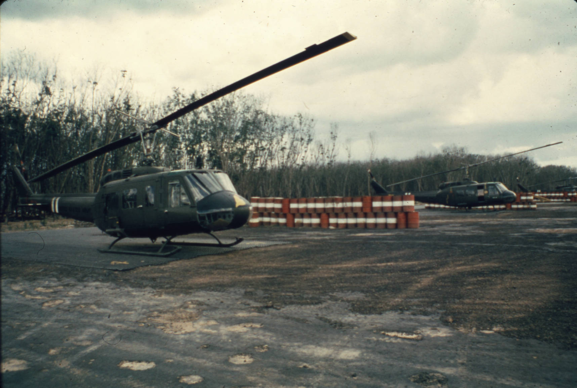 At Lai Khe barrels have been used to construct revetments for aircraft